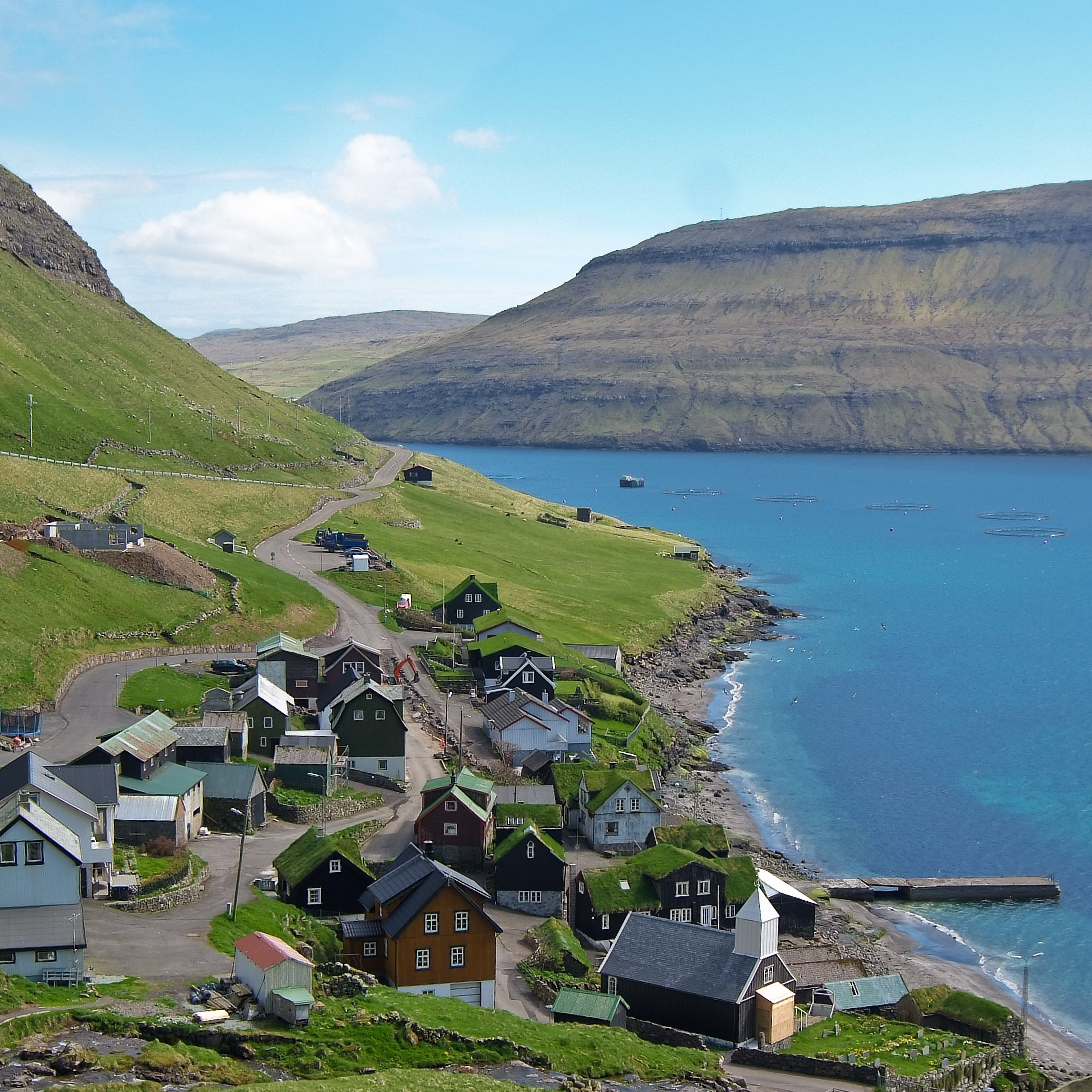 View of Bøur.